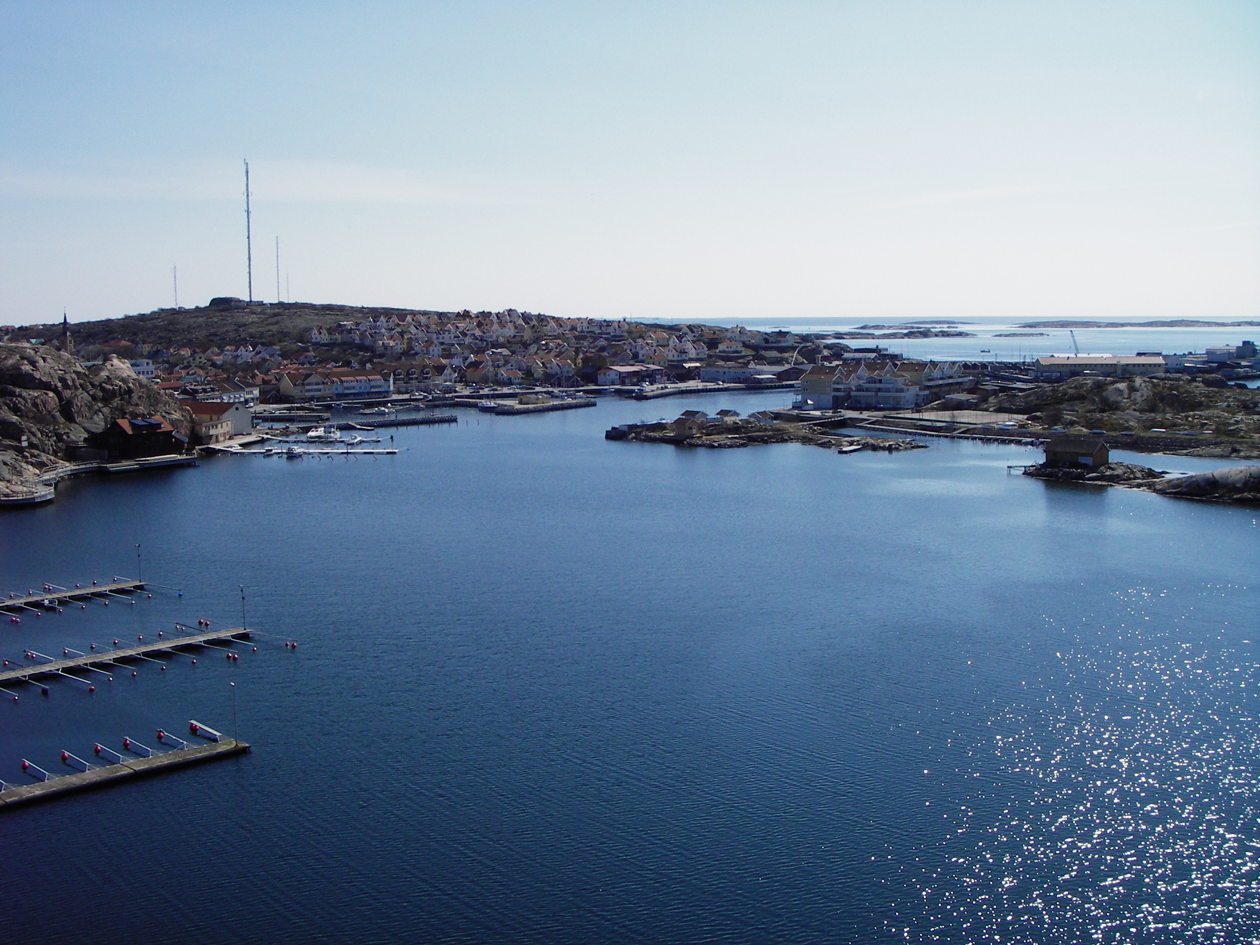 Central Kungshamn from the Smögen Bridge.